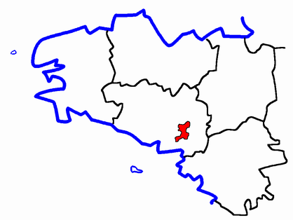 Description: Map for localisazion of cantons of Bretagne region in France Source: made by Hervé Tigier in april 2005 from another large map (published in 1990)